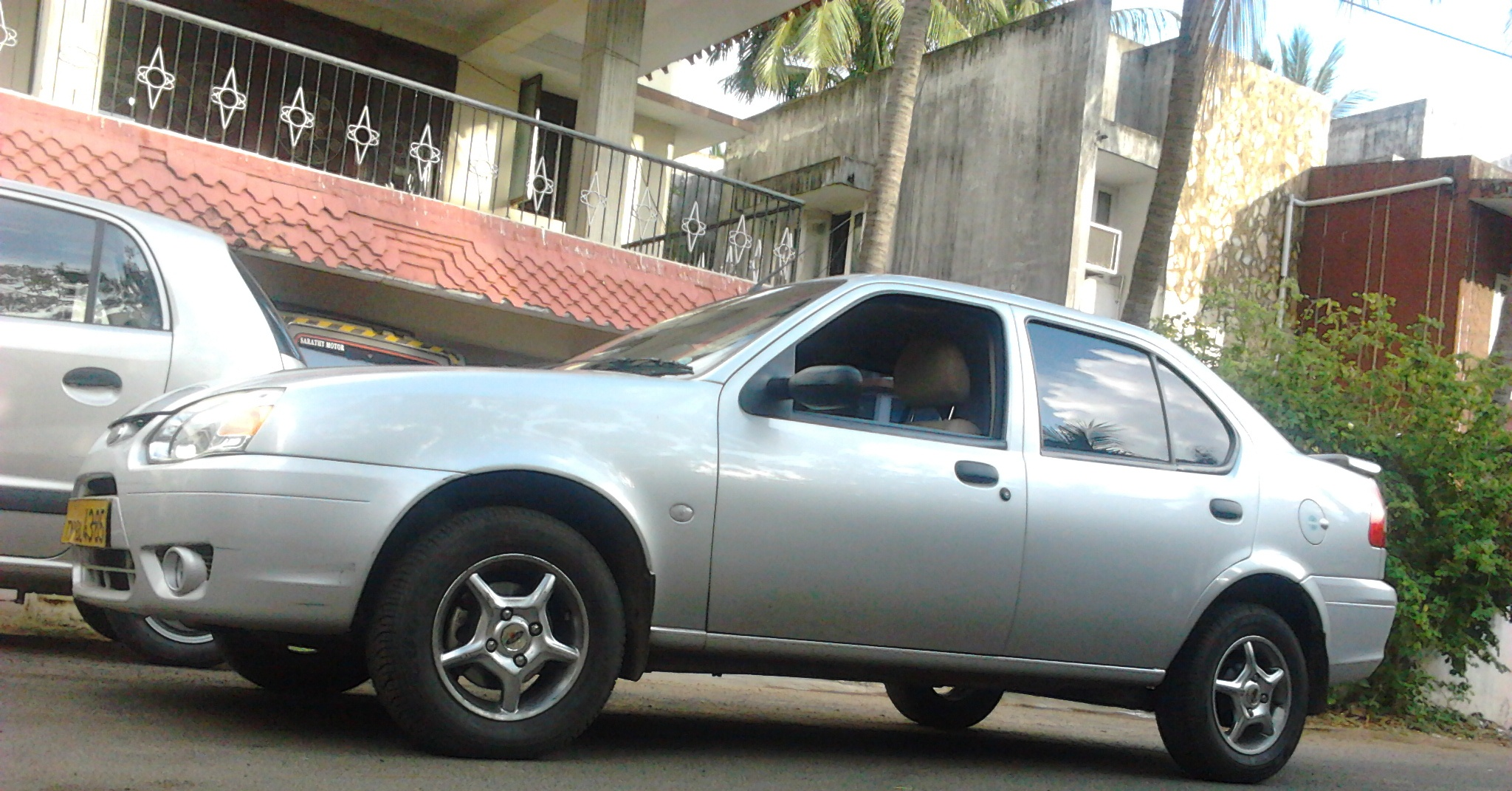 Photoed using Samsung Wave 525.